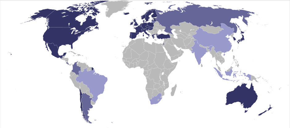 OECD members Accession candidate countries Enhanced engagement countries